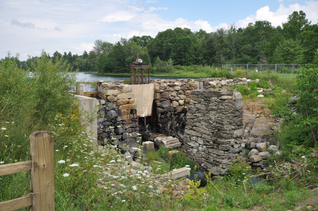 Dinsmore Grain Company Mill foundations, China, Maine.